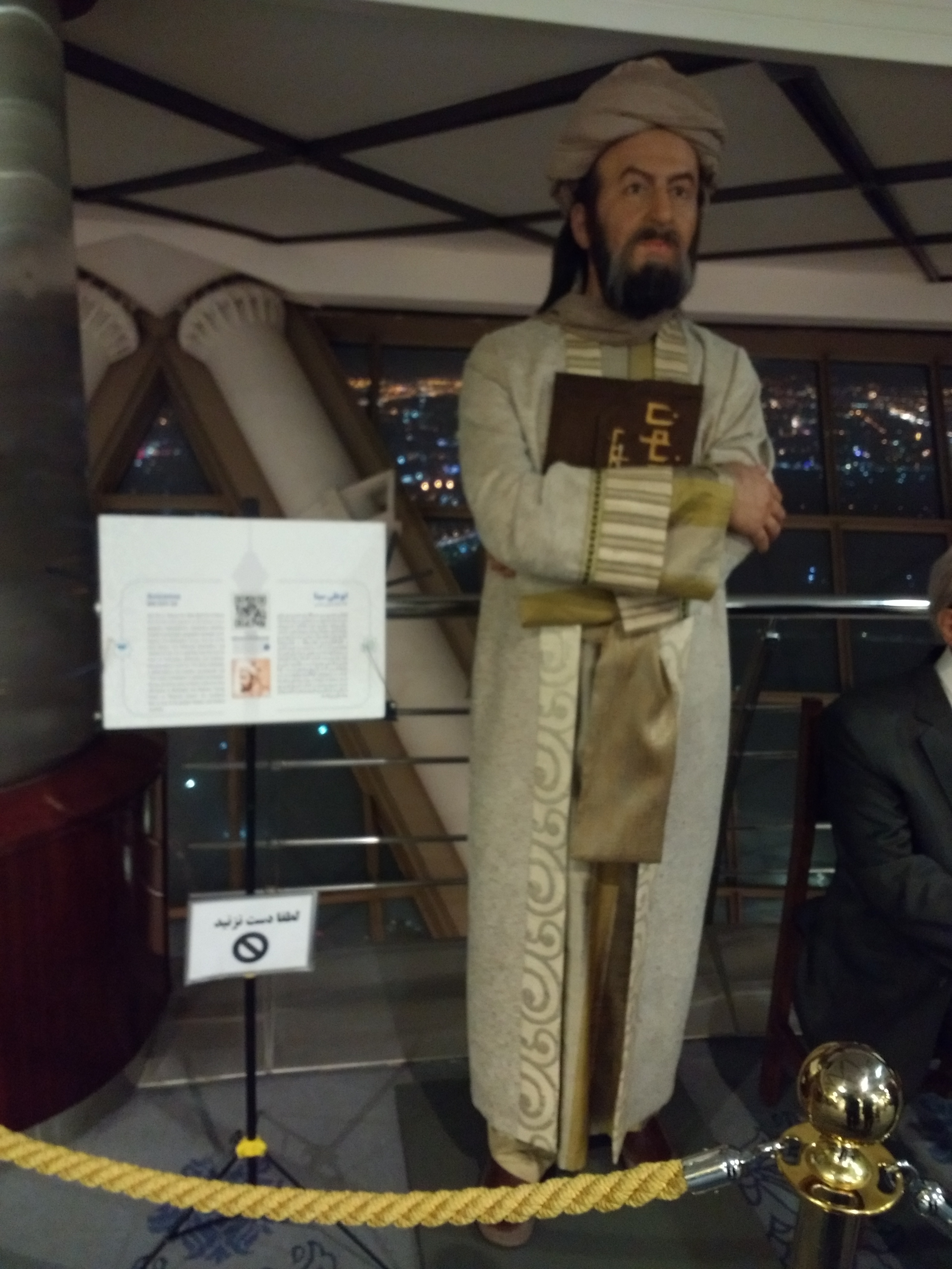 Avicenna statue in Milad Tower, Tehran, Iran